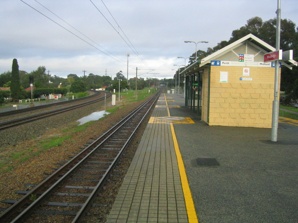 Transperth Woodbridge Train Station